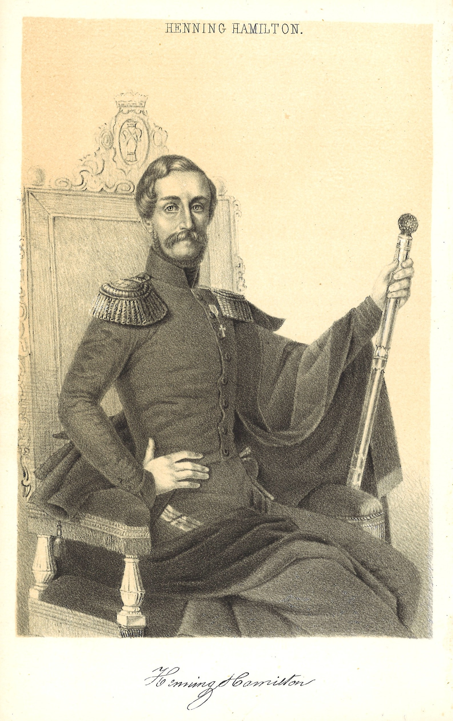 Henning Hamilton (1814-1886), Swedish count, officer, civil servant, county governor, minister of education and "lantmarskalk" (chairman of the estate of nobility).